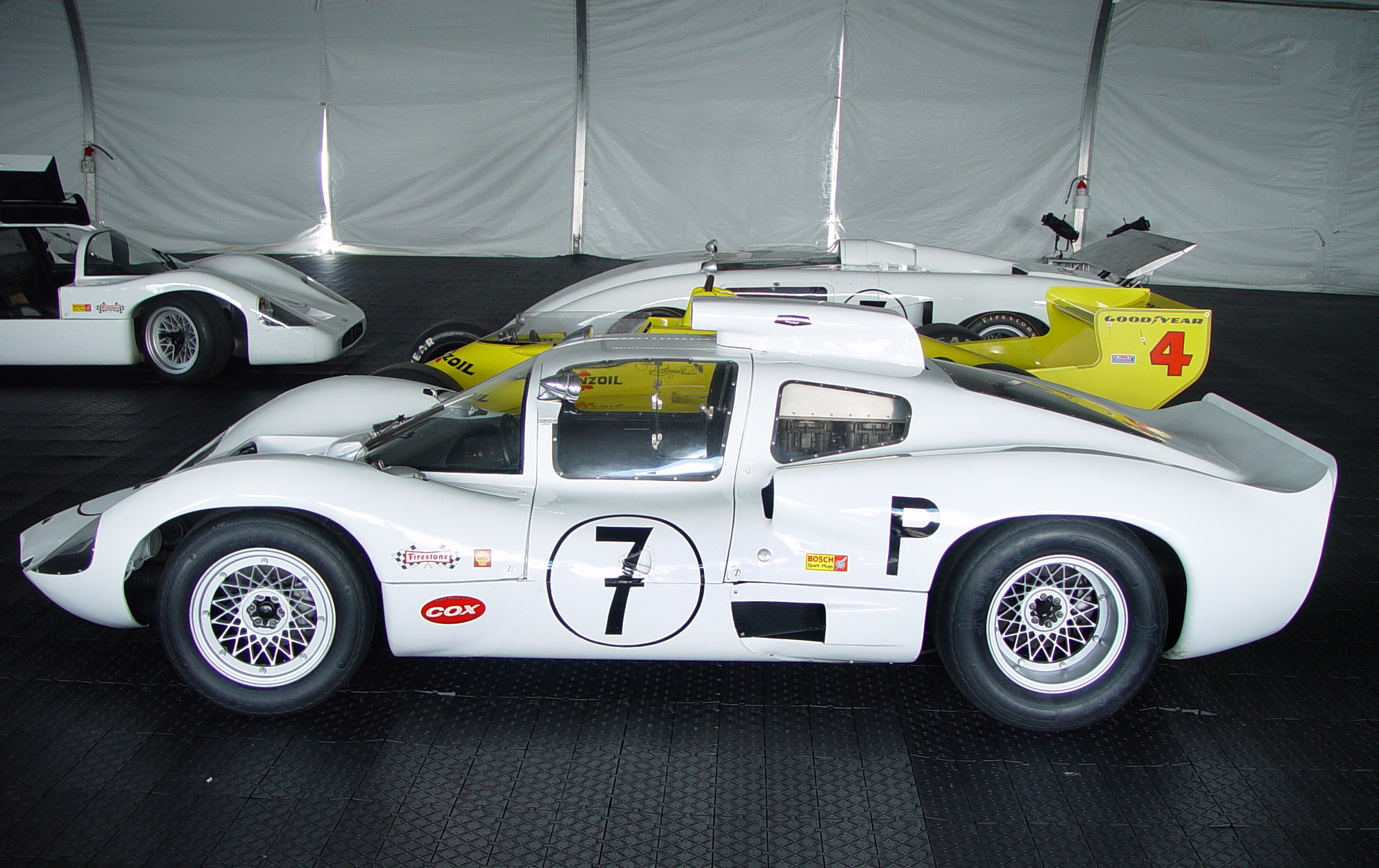 Chaparral 2D at the 2005 Monterey Historic